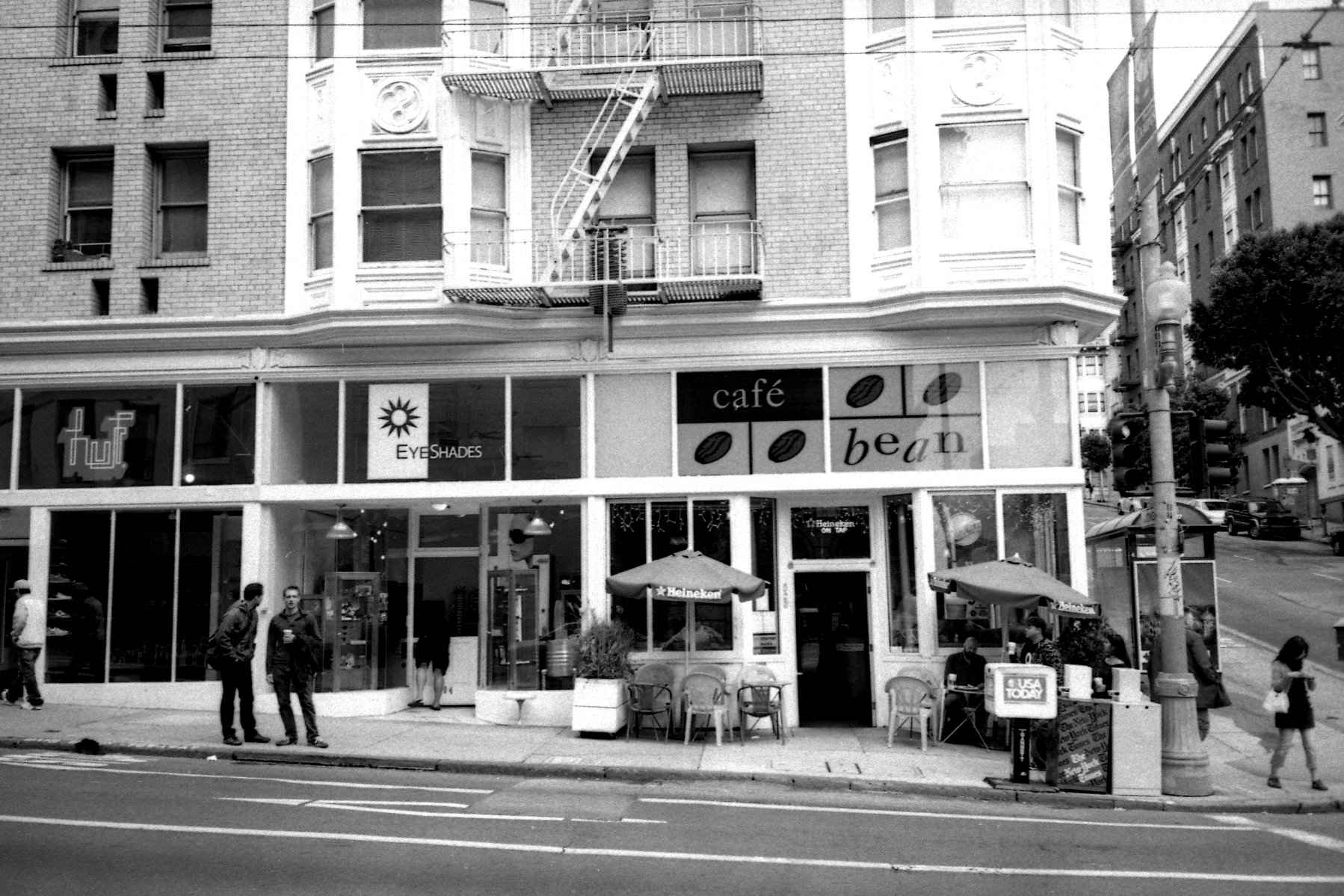 Flickr description San Francisco, in the "Tendernob" between Nob Hill and the Tenderloin.